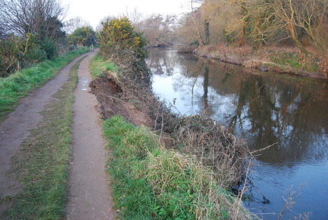 Bank erosion, River Otter